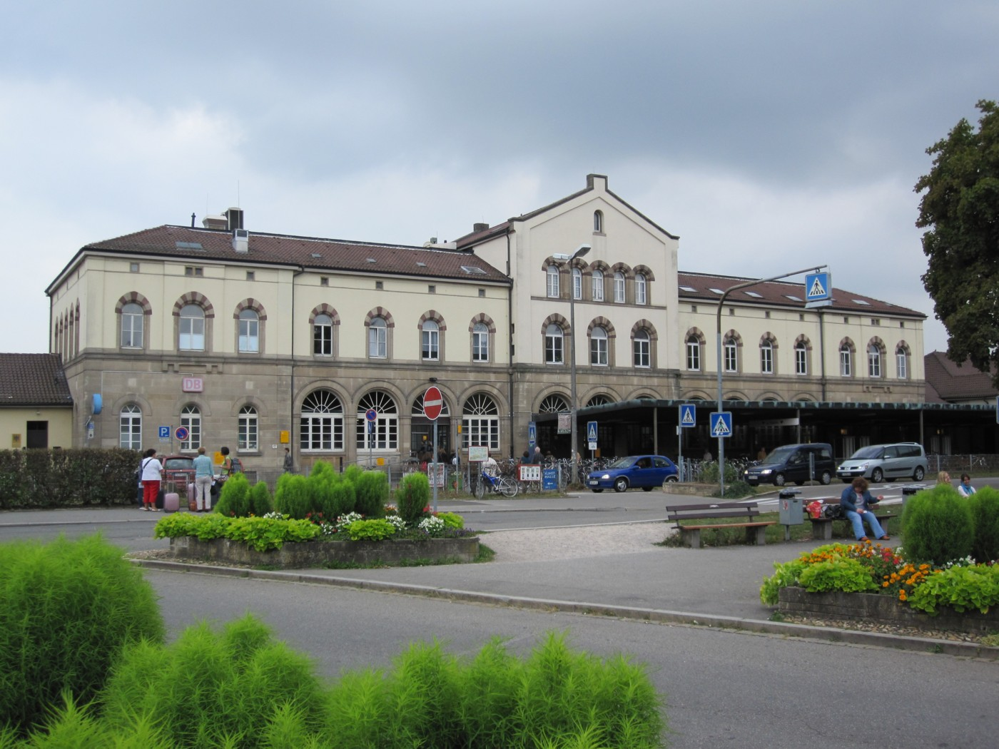 Tübingen. Main Station